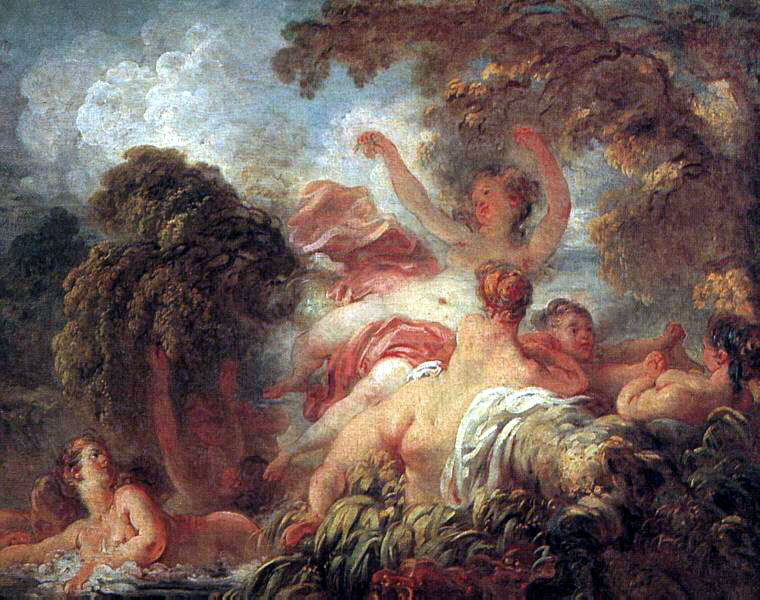 pub dom